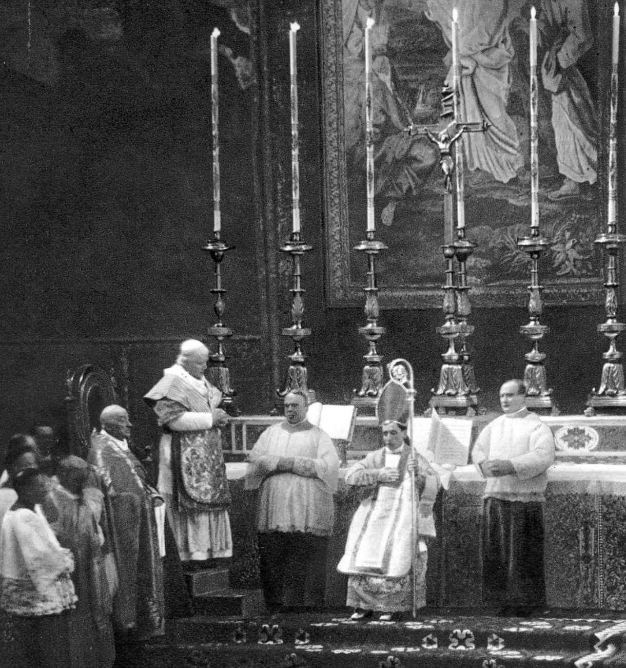 Copyright expired photo of Pope Pius X (standing on the left) on December 18, 1907 consecrating Giacomo della Chiesa (sitting in front of the altar with mitre and crosier; later Pope Benedict XV) in the Vatican.